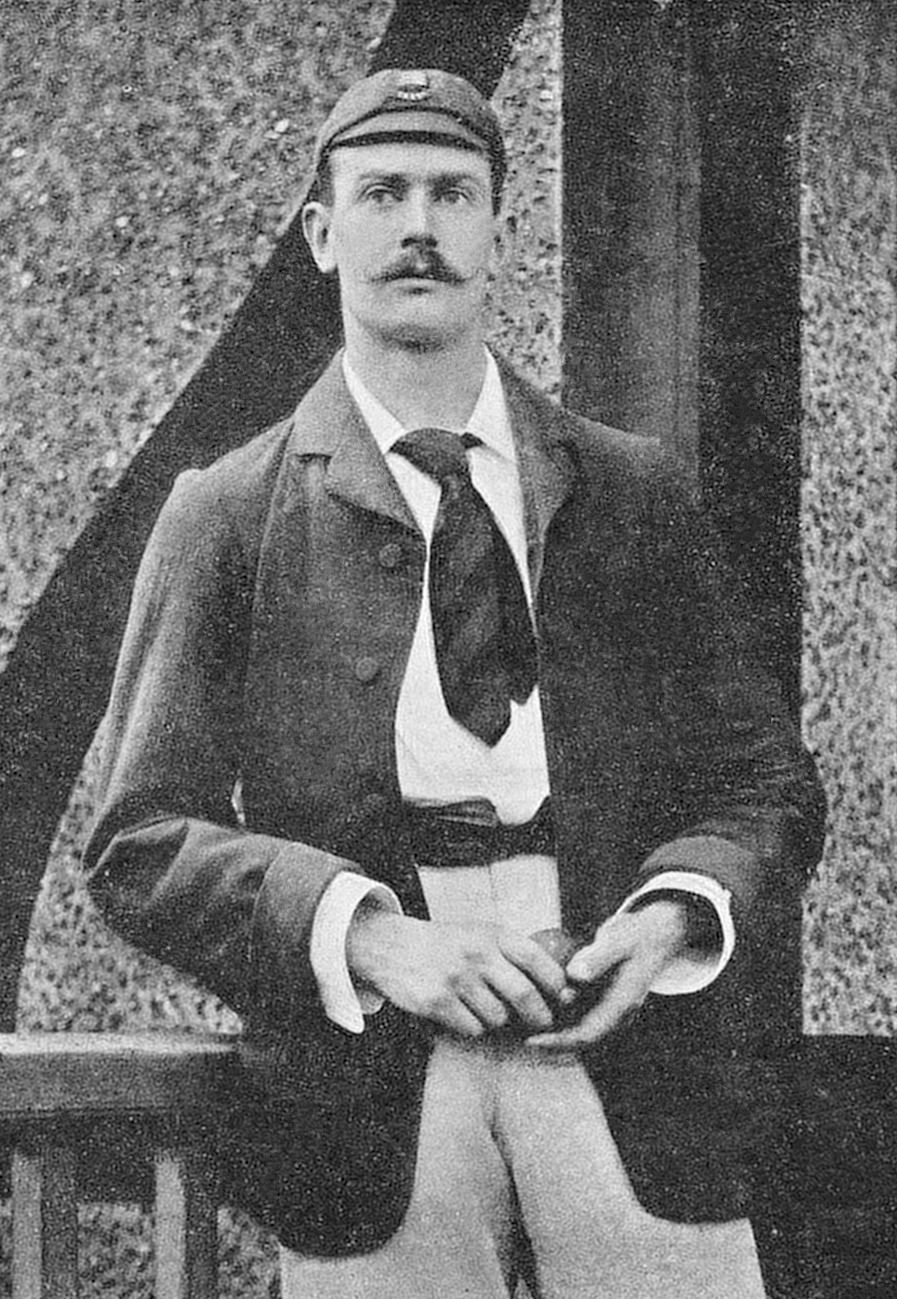 Scan of cricketer Charles Kortright